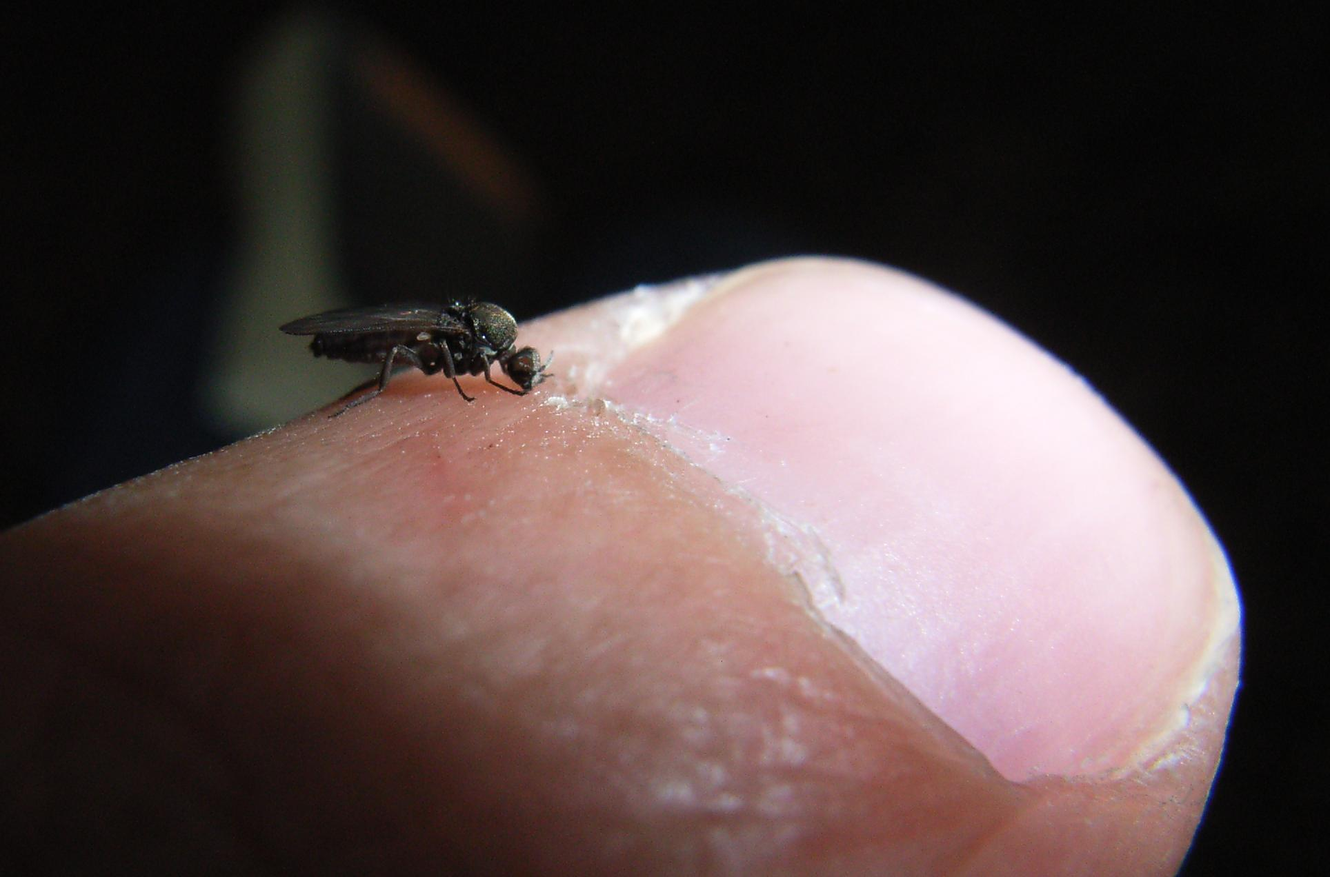 Photo believed taken in the Te Anau region of New Zealand. Presumably a member of (Comment from unknown editor: This is not a sand fly. It is just a little fly but not a sand fly.)